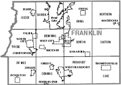 Township map of Franklin County, Illinois